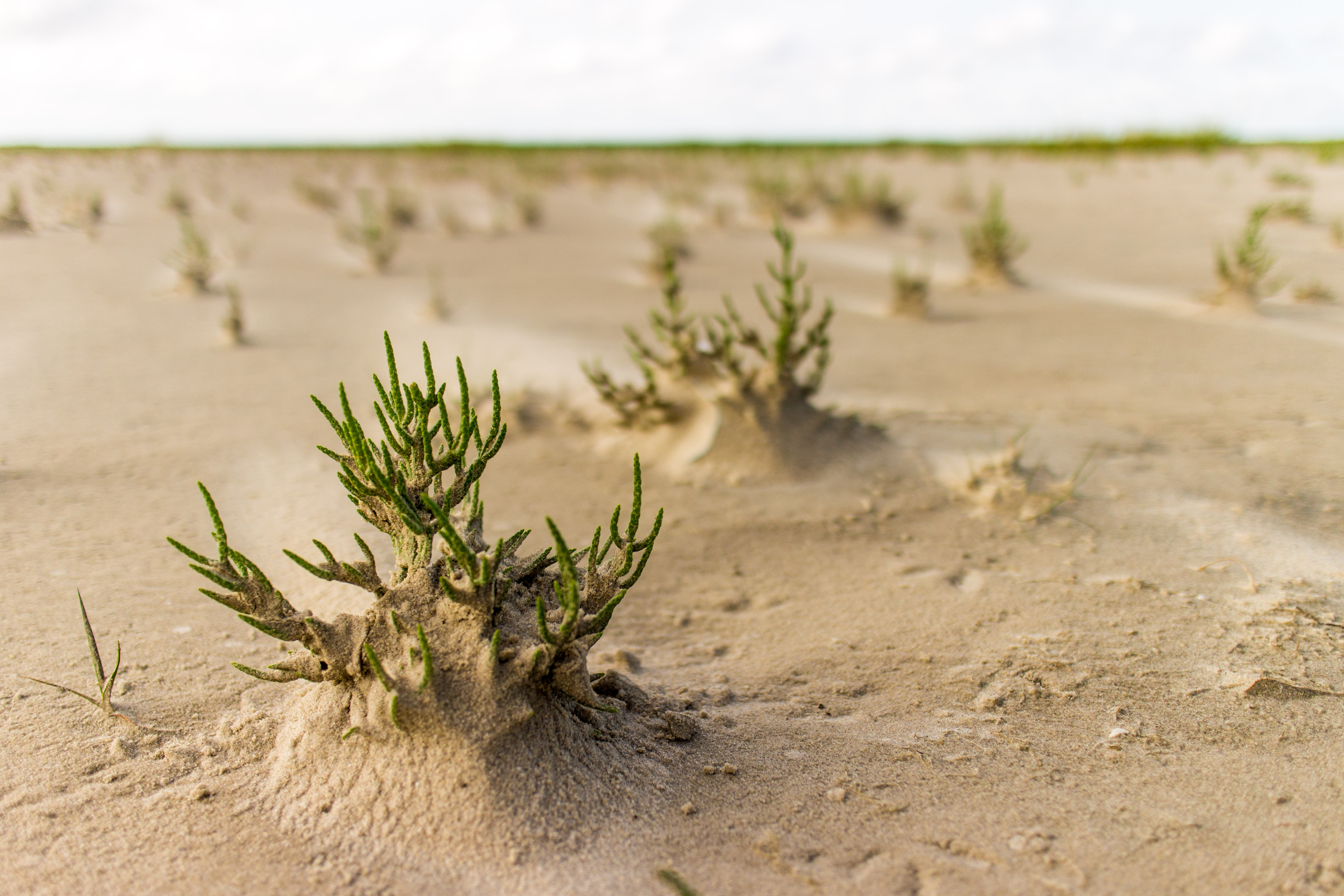 Glasswort acting as natural sand fence in the saltmarshes of Scharhörn at easterly winds